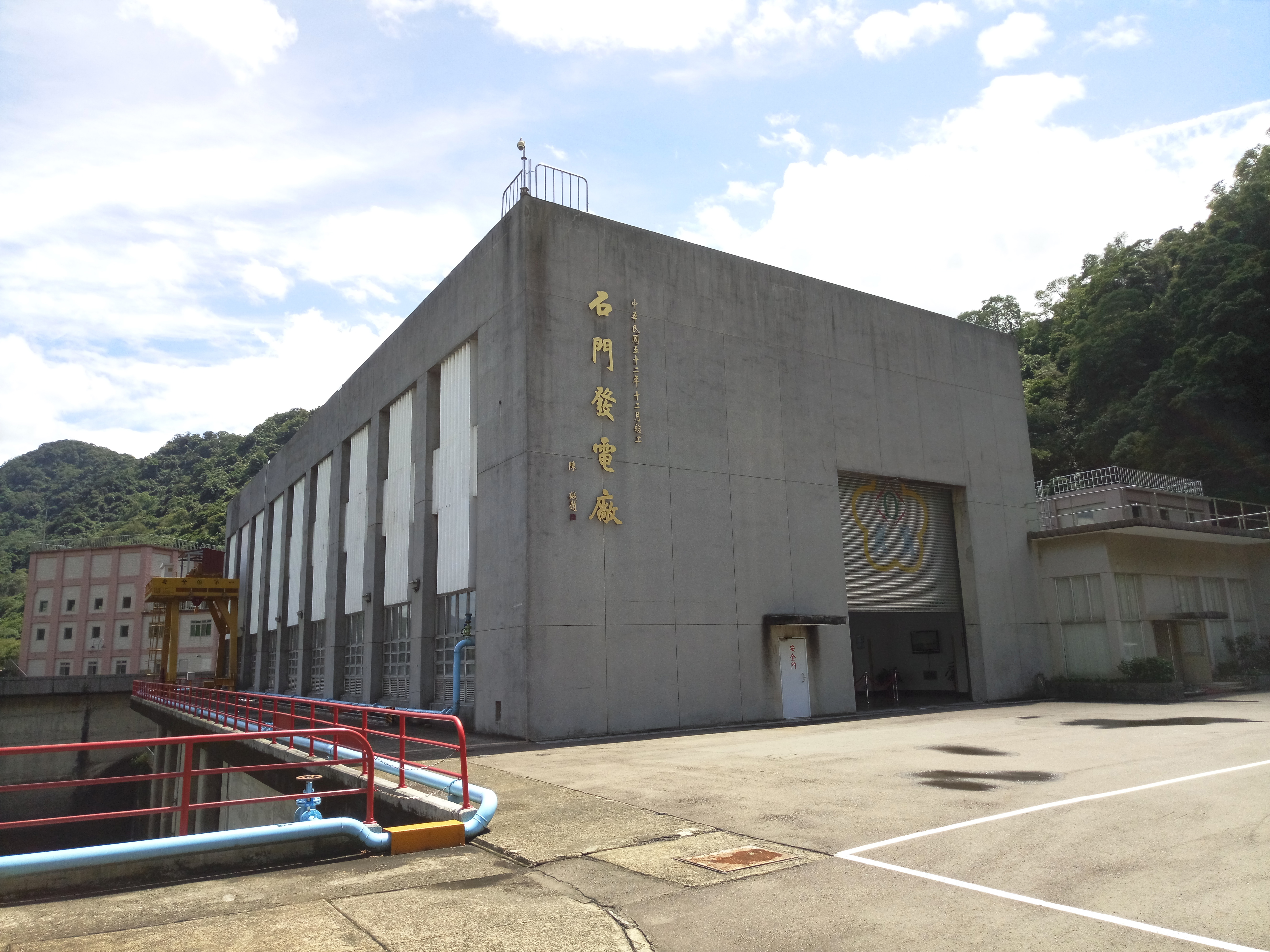 Shihmen Hydropower Plant Power House